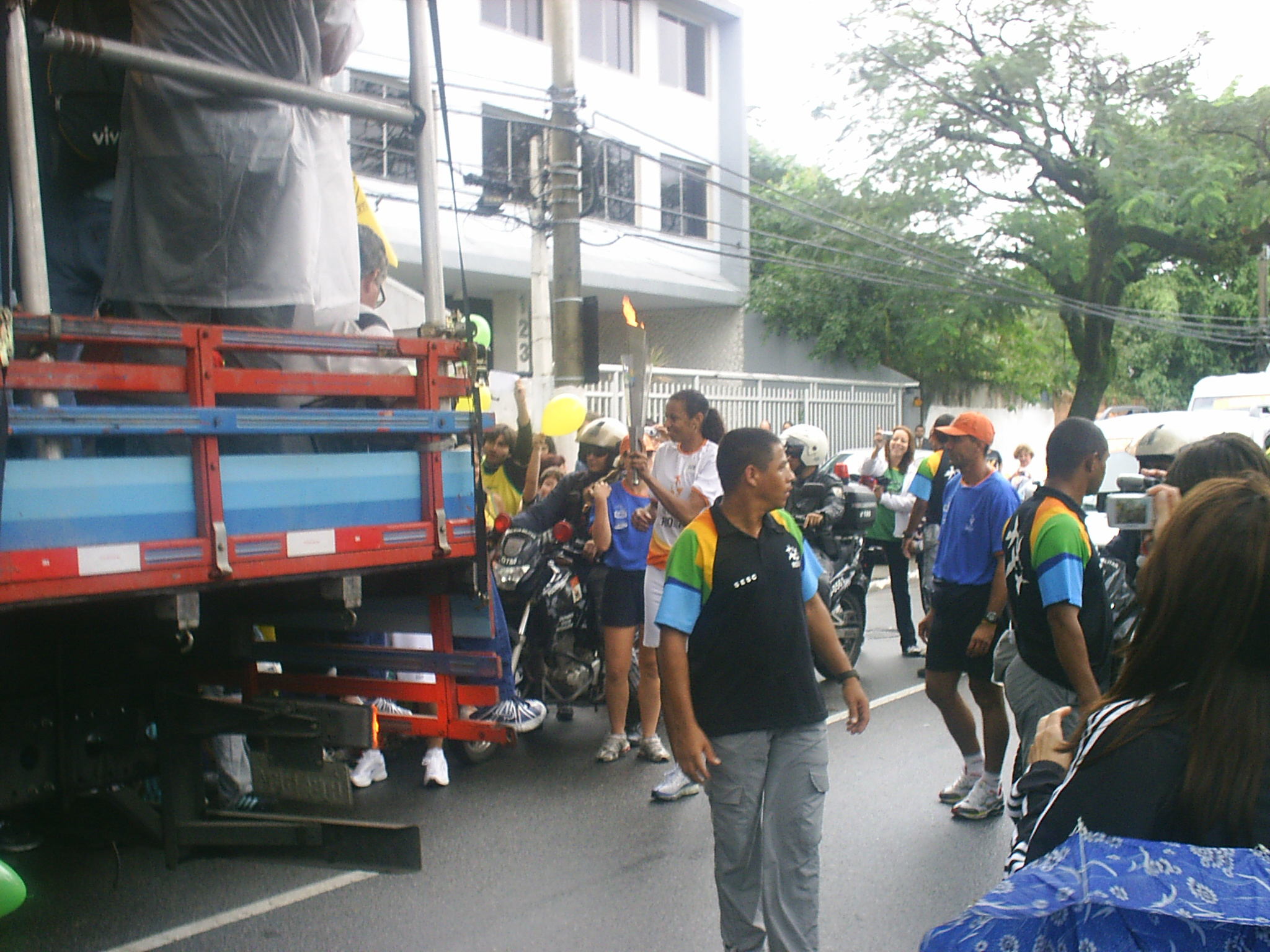 Torch relay for the 2007 Pan-Am Games in Rio de Janeiro. Brazilian Volleyball star Valeska Menezes (aka "Valeskinha") carries the Pan-Am Games' flames during the Torch relay leading up to the 2007 Pan-Am Games in Rio de Janeiro, Brazil.